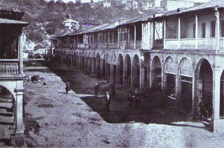 Kutaisi